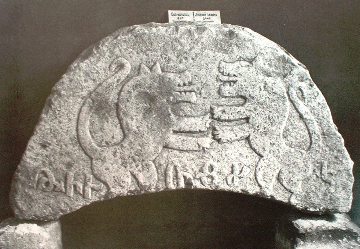 Coat of arms of the Melikdom of Gyulustan